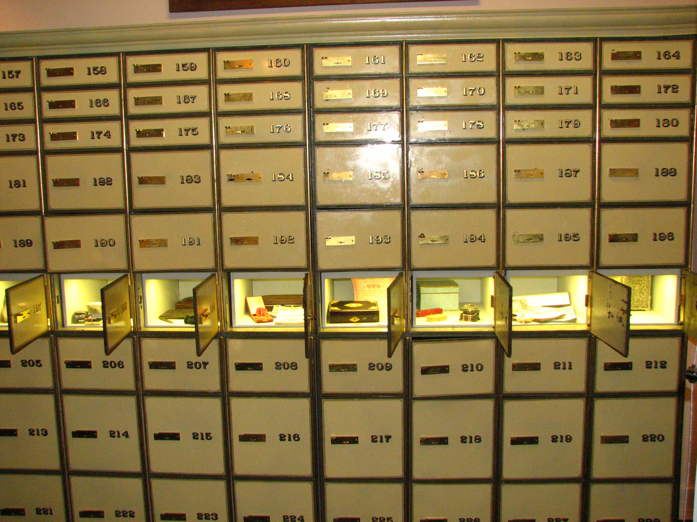 Saint Petersburg. Museum of history of St.-Petersburg (an exposition in the Commandant's house of the Peter and Paul Fortress). The bank safe. Late XIX-th century.